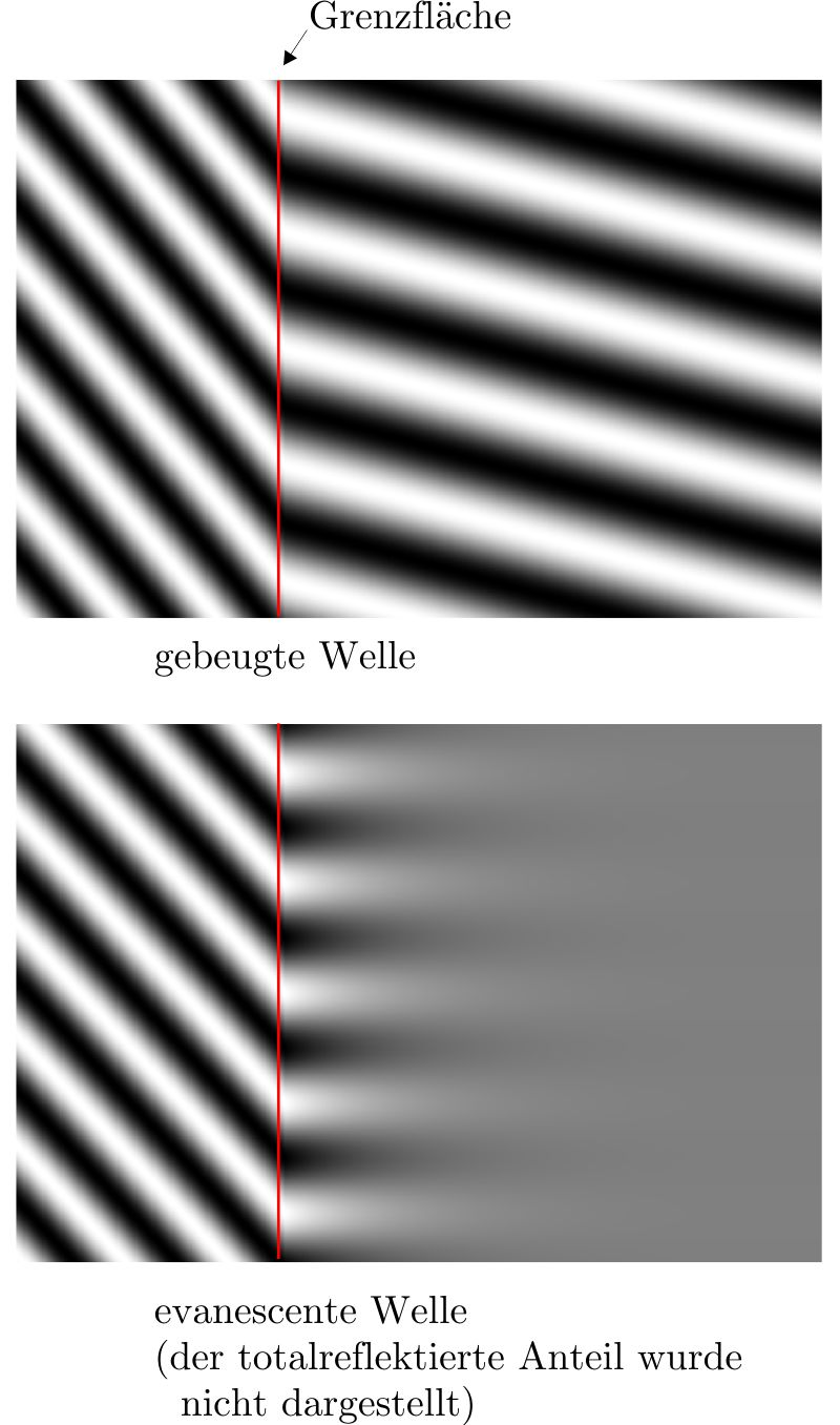 Representation of an evanescent wave and a diffracted wave at an interface